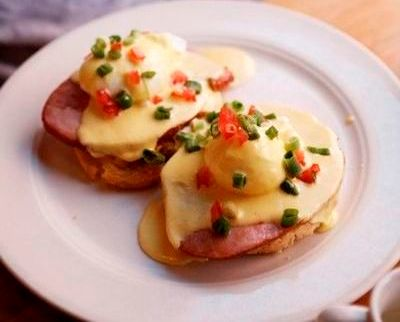 Eggs Benedict, made at the Clinton Street Baking Co. & Restaurant